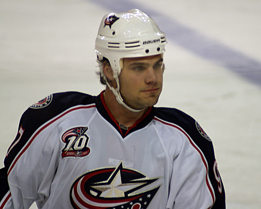 Rostislav Klesla, born March 21, 1982 in Nový Jičín, Czechoslovakia, is a Czech professional ice hockey player currently with the Columbus Blue Jackets of the National Hockey League. This NHL game action photo was taken December 13, 2010 at the Scotiabank Saddledome in Calgary, Alberta.